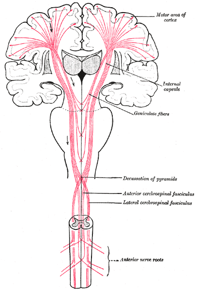 The motor tract. (Modified from Poirier.)